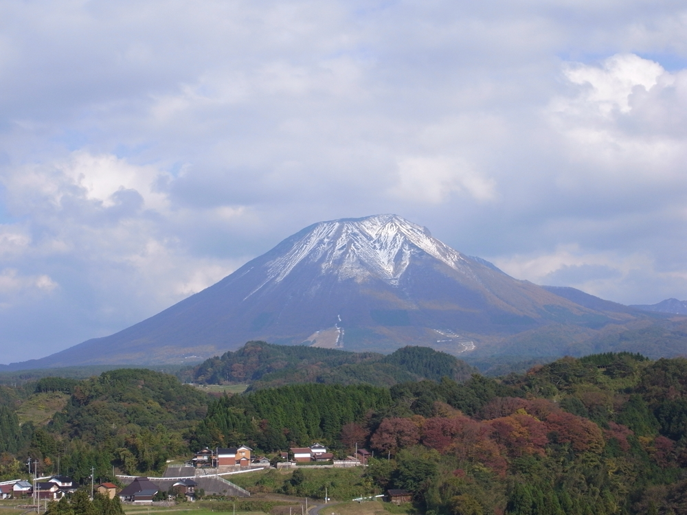 The WSW side of Daisen in Tottori Prefecture, Japan. Taken from Yonago Expressway.